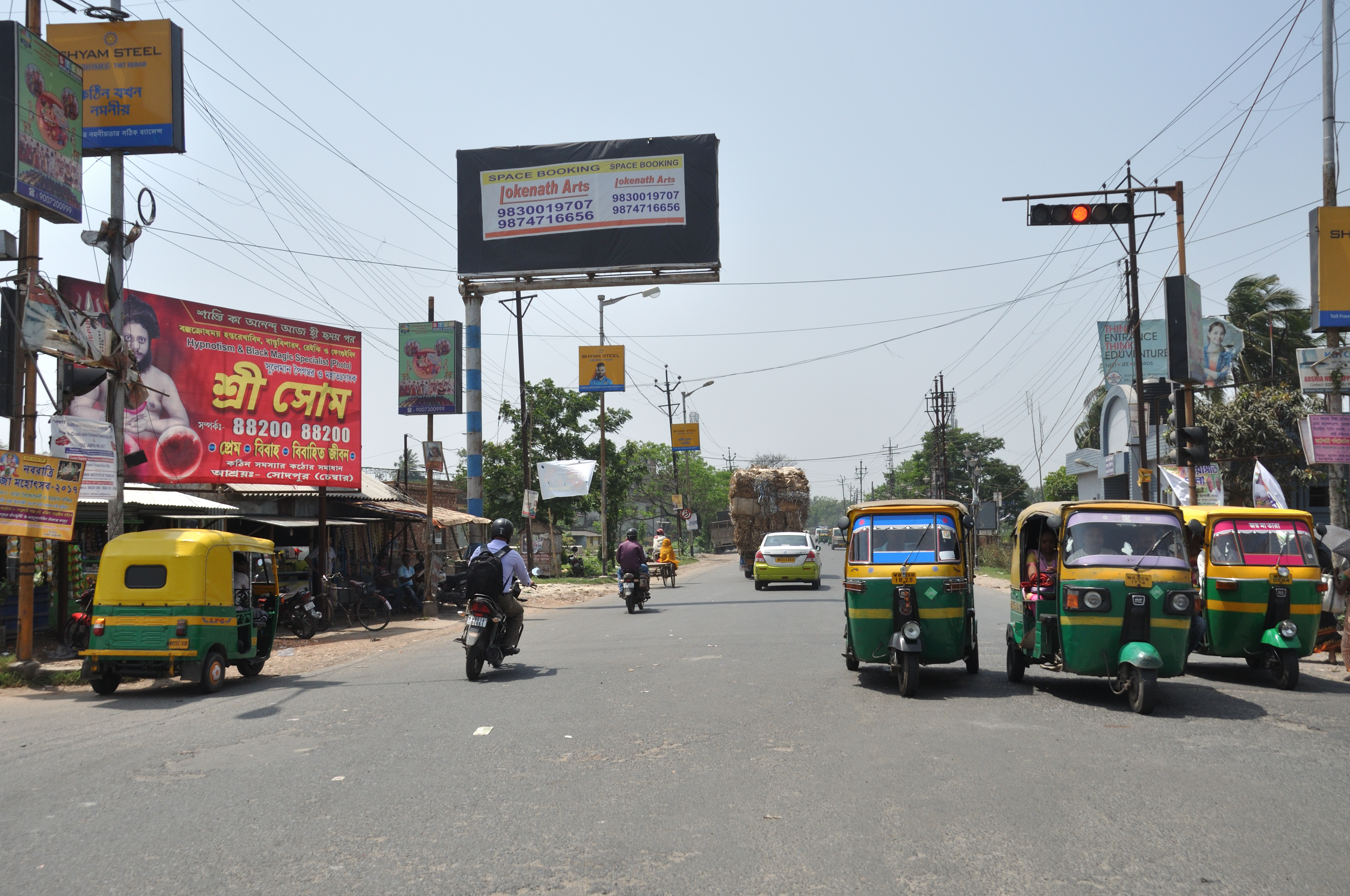 This photograph was taken in Kolkata, West Bengal.